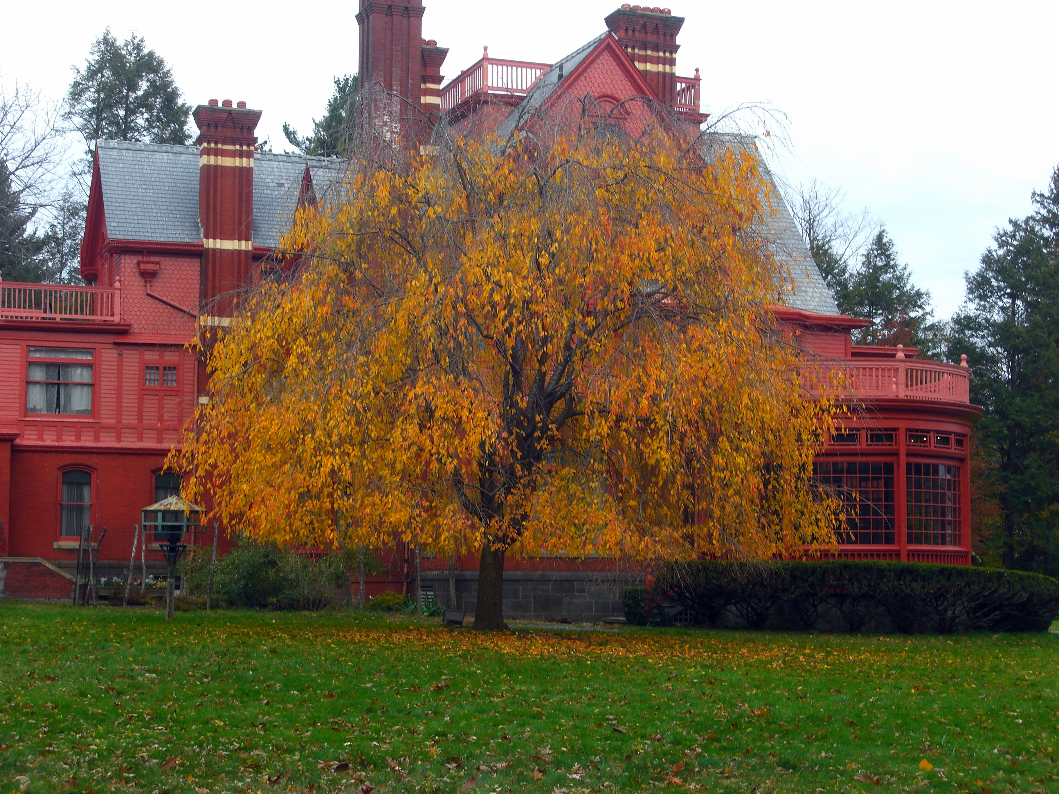 A tree outside Glenmont, Thomas Edison's house in Llewelyn Park.